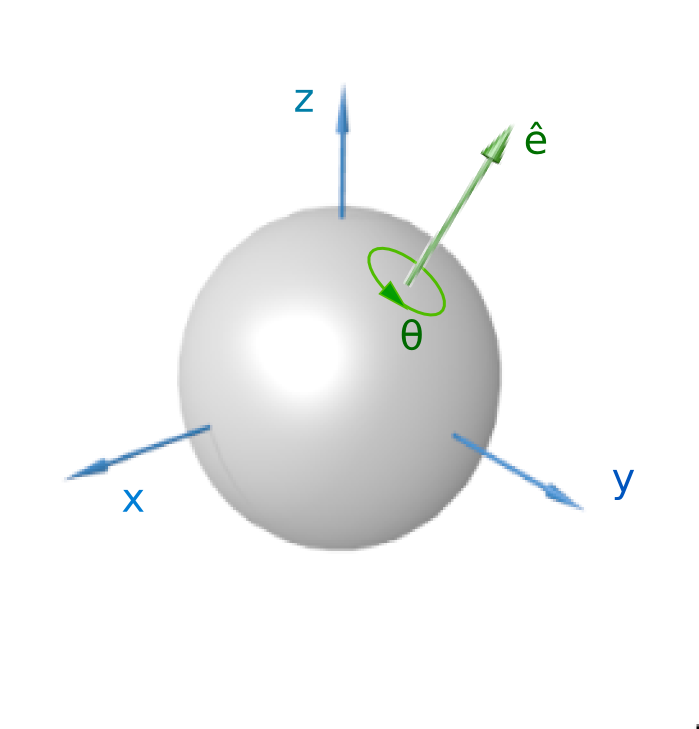 Representation of how the axis and angle rotation representation can be visualized. It may not be confused with “Euler angles”.